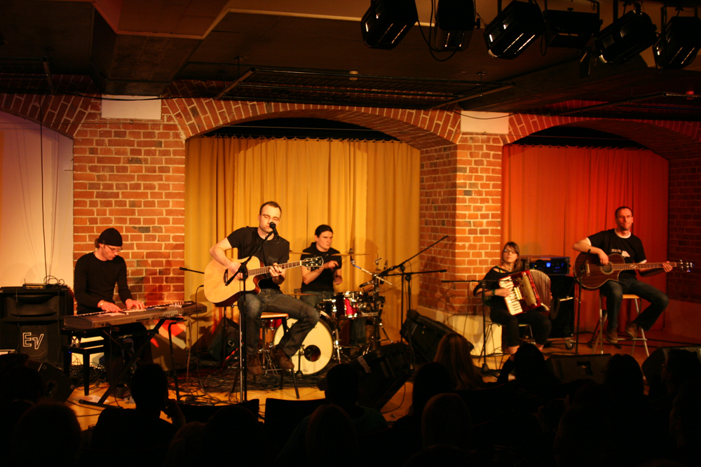 the villains live at concert